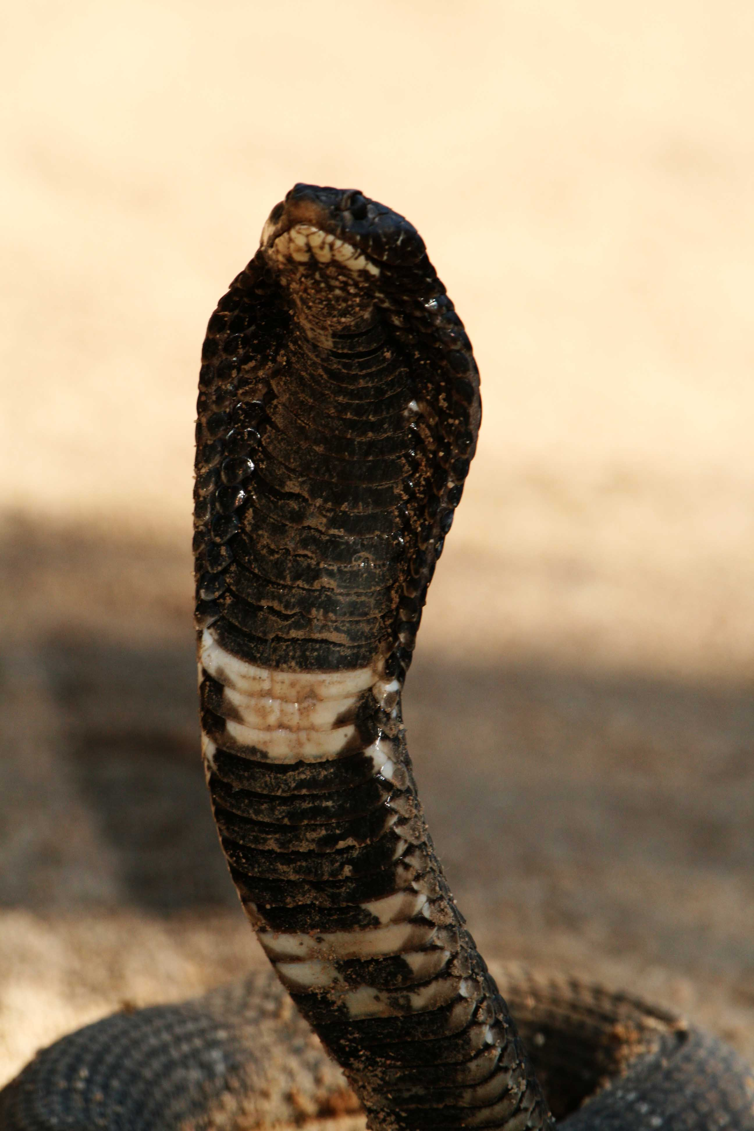 Rinkhals close